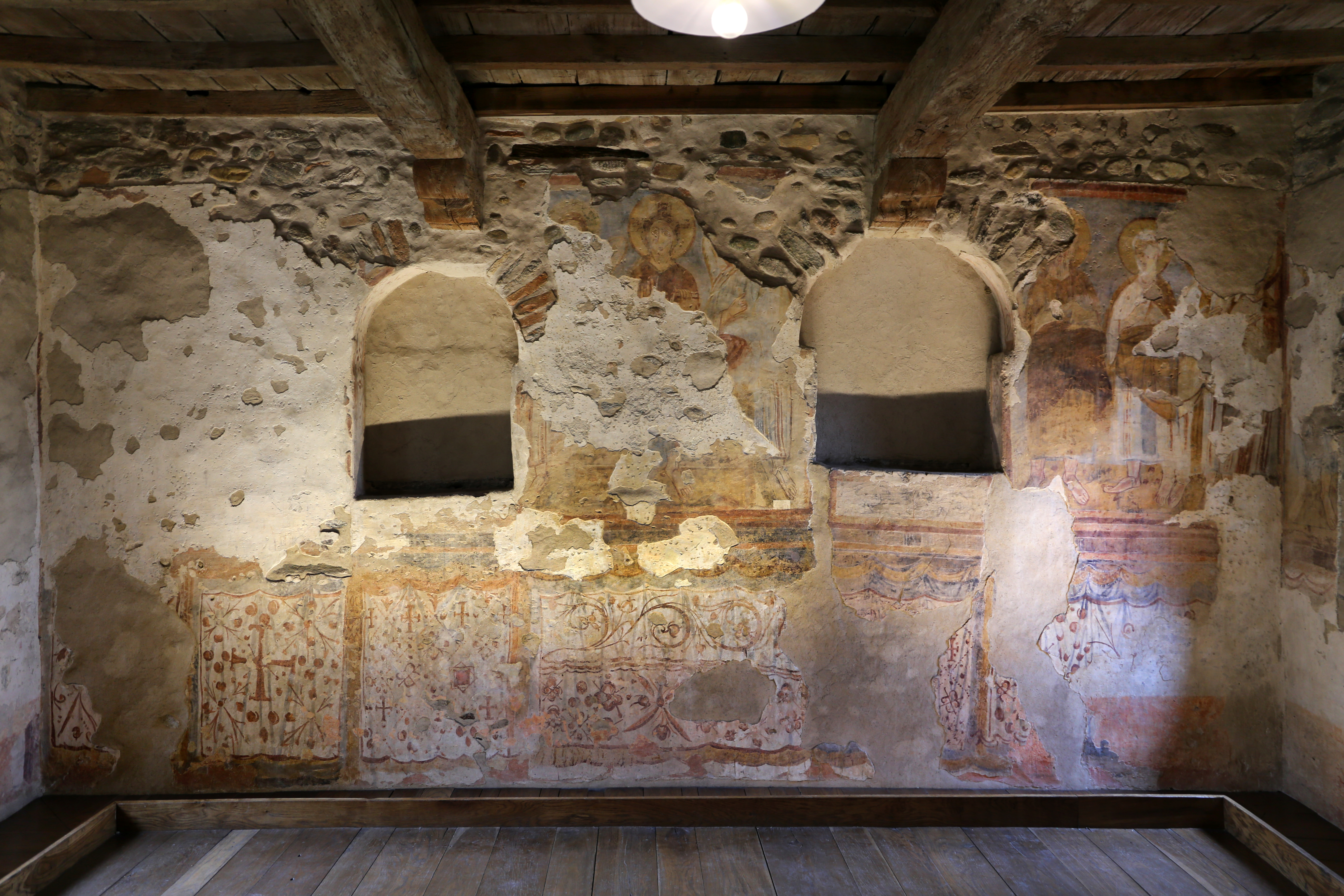 Monastery of Torba